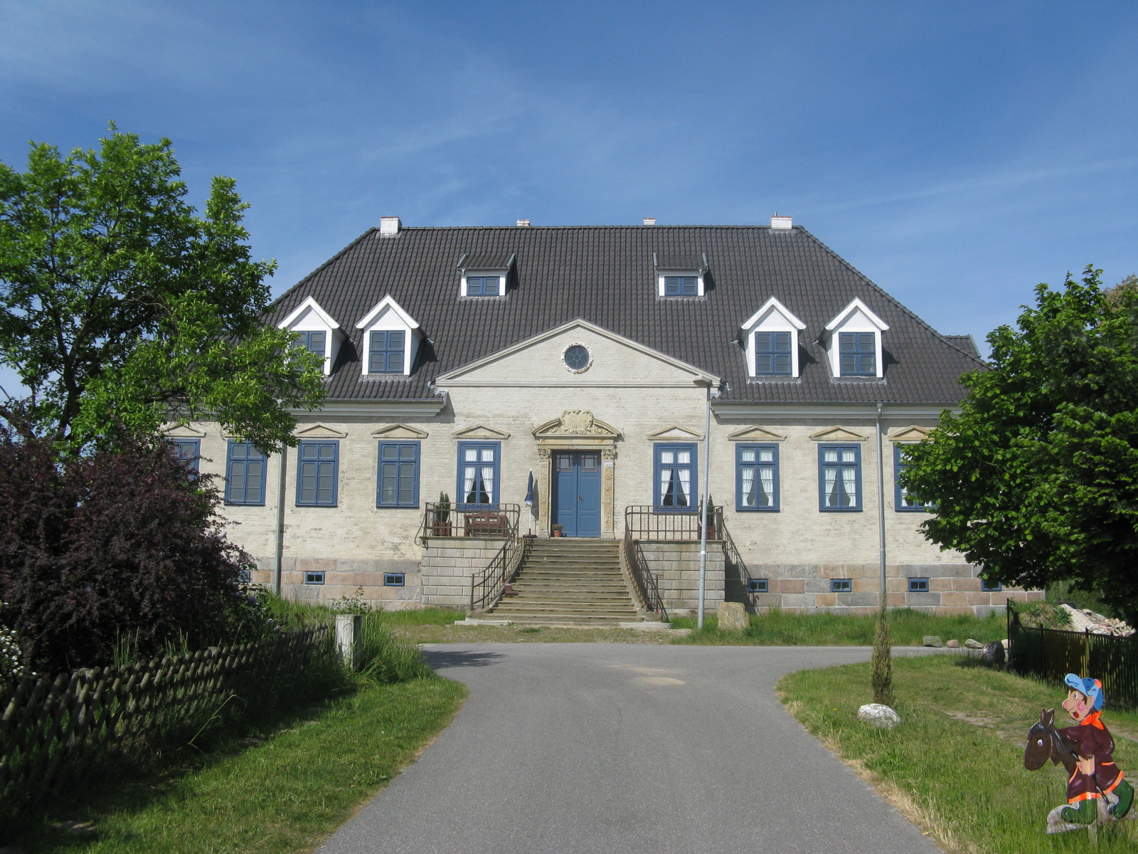 Manor house in Blücher, Mecklenburg-Vorpommern, Germany